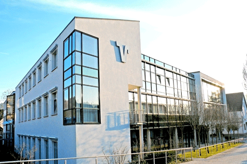 headquaters Volksbank Nagoldtal